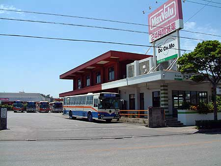 Gushikawa Bus Terminal, Gushikawa, Uruma, Okinawa